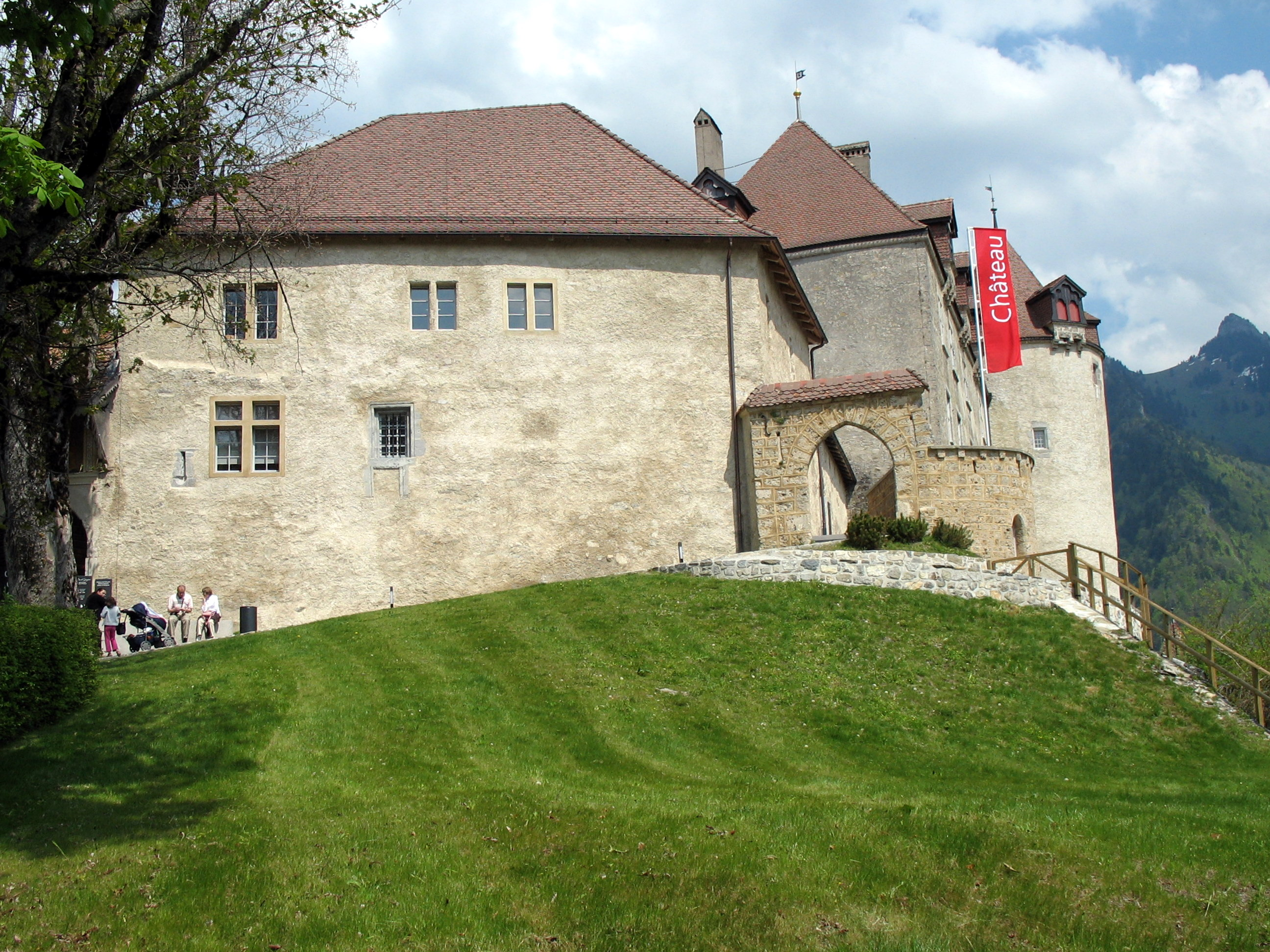 Castle of Gruyères, Switzerland, Canton of Fribourg. This JPG graphic was created with Inkscape. This image was improved or created by the Wikigraphists of the Graphic Lab (fr). You can propose images to clean up, improve, create or translate as well.